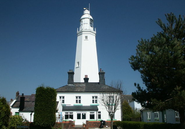 Withernsea Lighthouse Museum, Withernsea, East Riding of Yorkshire, England.Well inland lighthouse which houses a museum